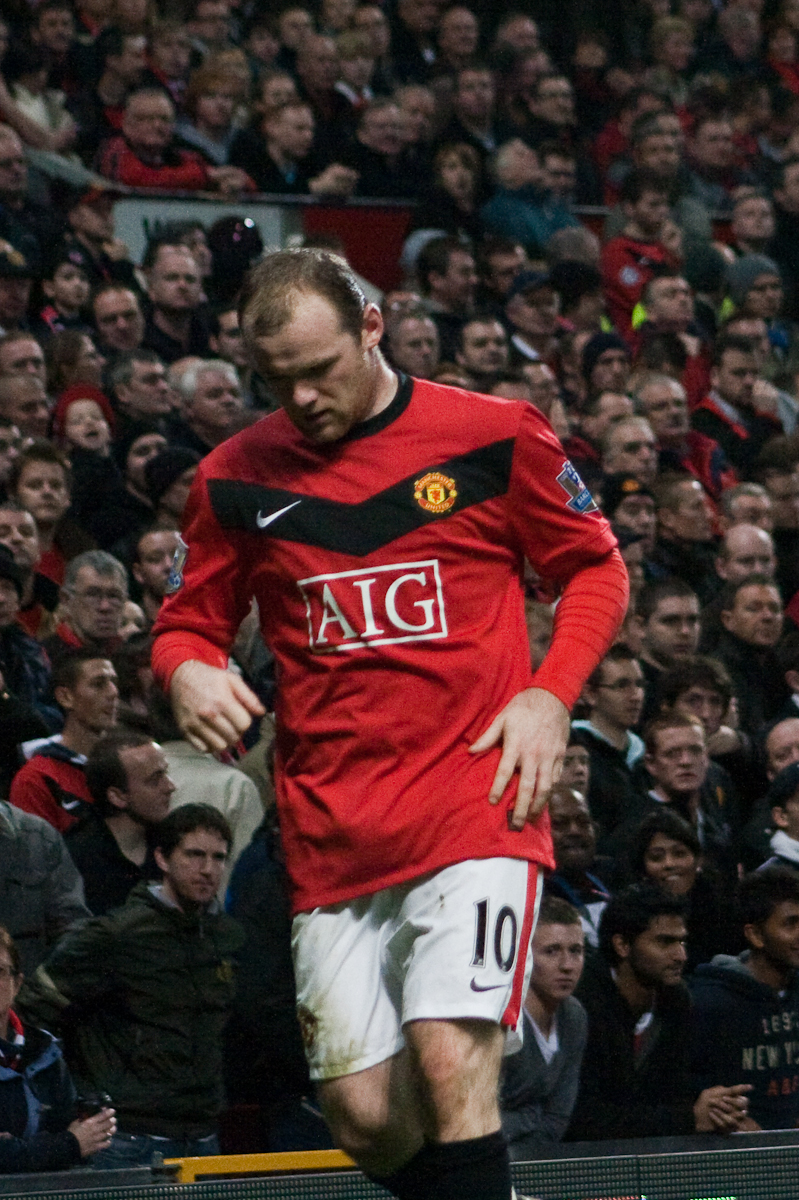 Wayne Rooney of Manchester United vs Everton. at Old Trafford, Manchester.